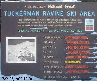 USFS avalanche danger board on Mt Washington at 3,900-foot-high Hermit Cabin, foot of Tuckerman Ravine, showing mostly "considerable" dangers due to snow loaded wind slabs from 80 MPH westerlies. Foto taken using Fuju Finepix 1300 during ski patrol training.